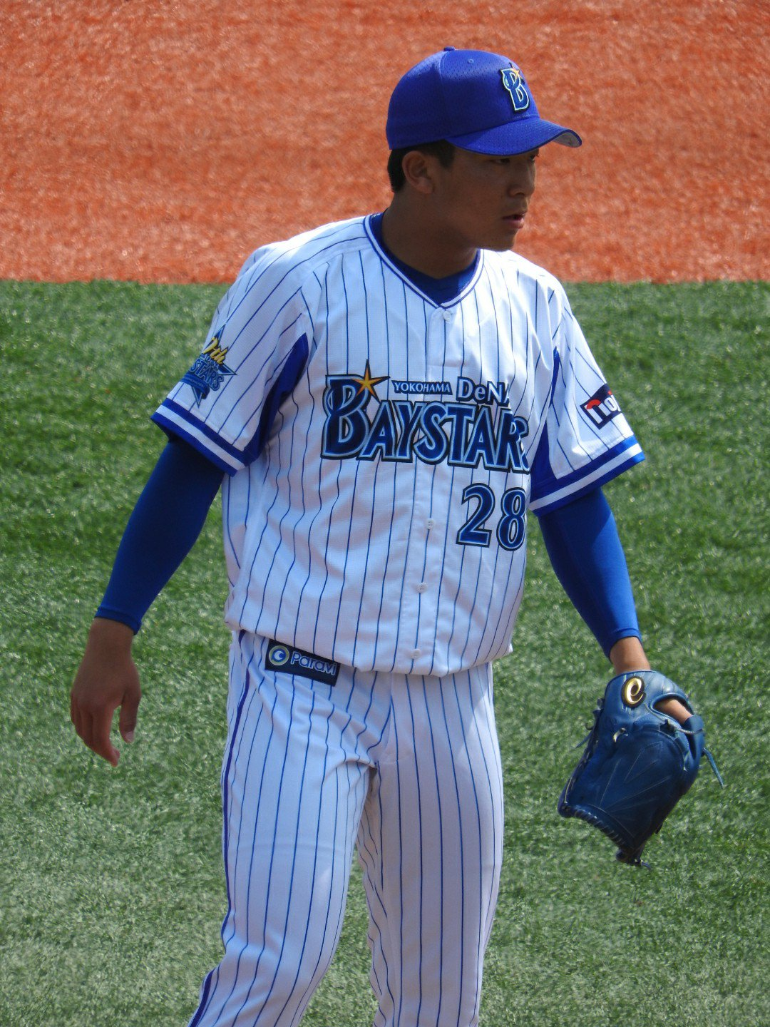 2019年4月21日 横須賀スタジアムにて